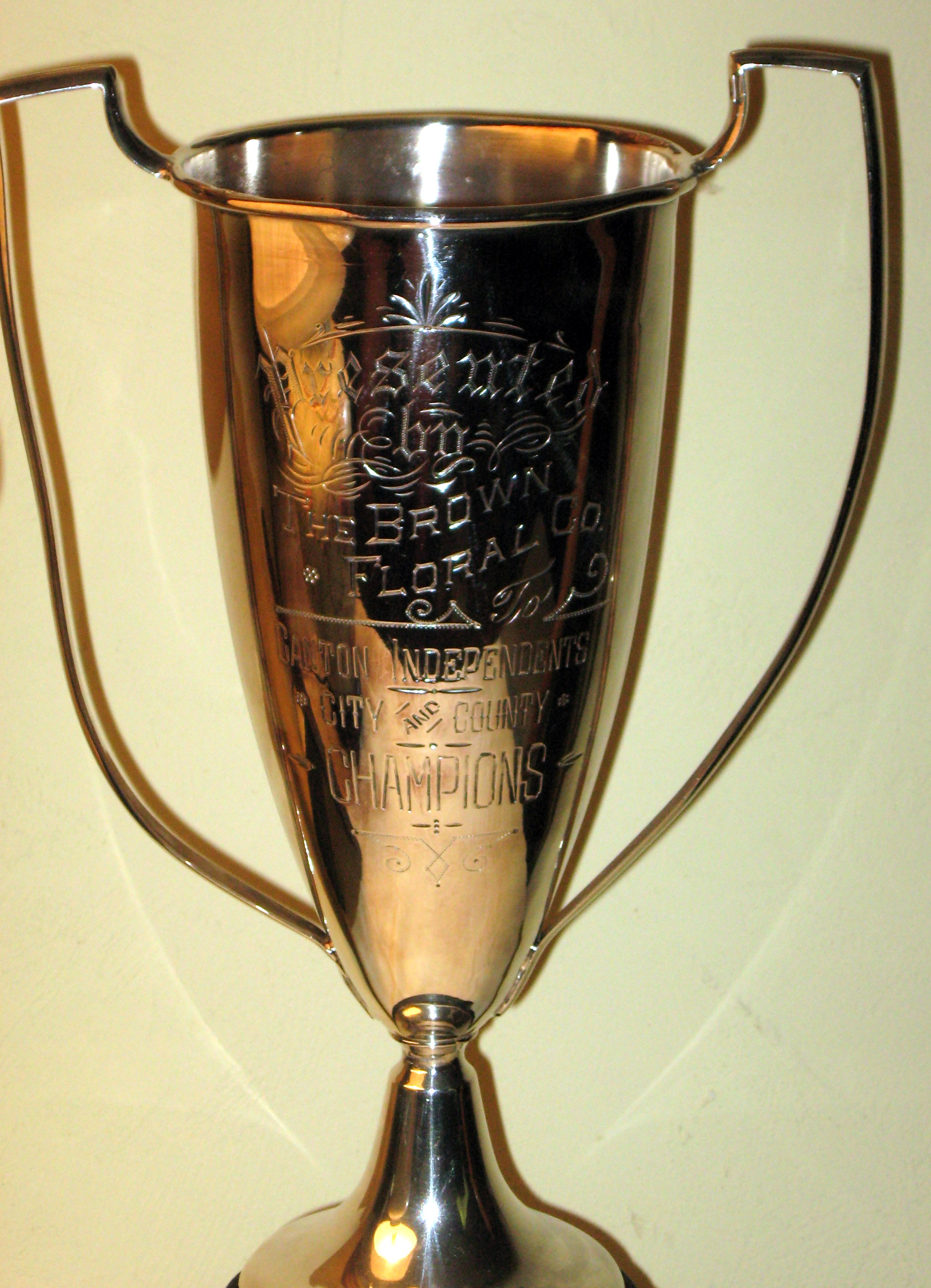 Photo of Canton Independents basketball team trophey